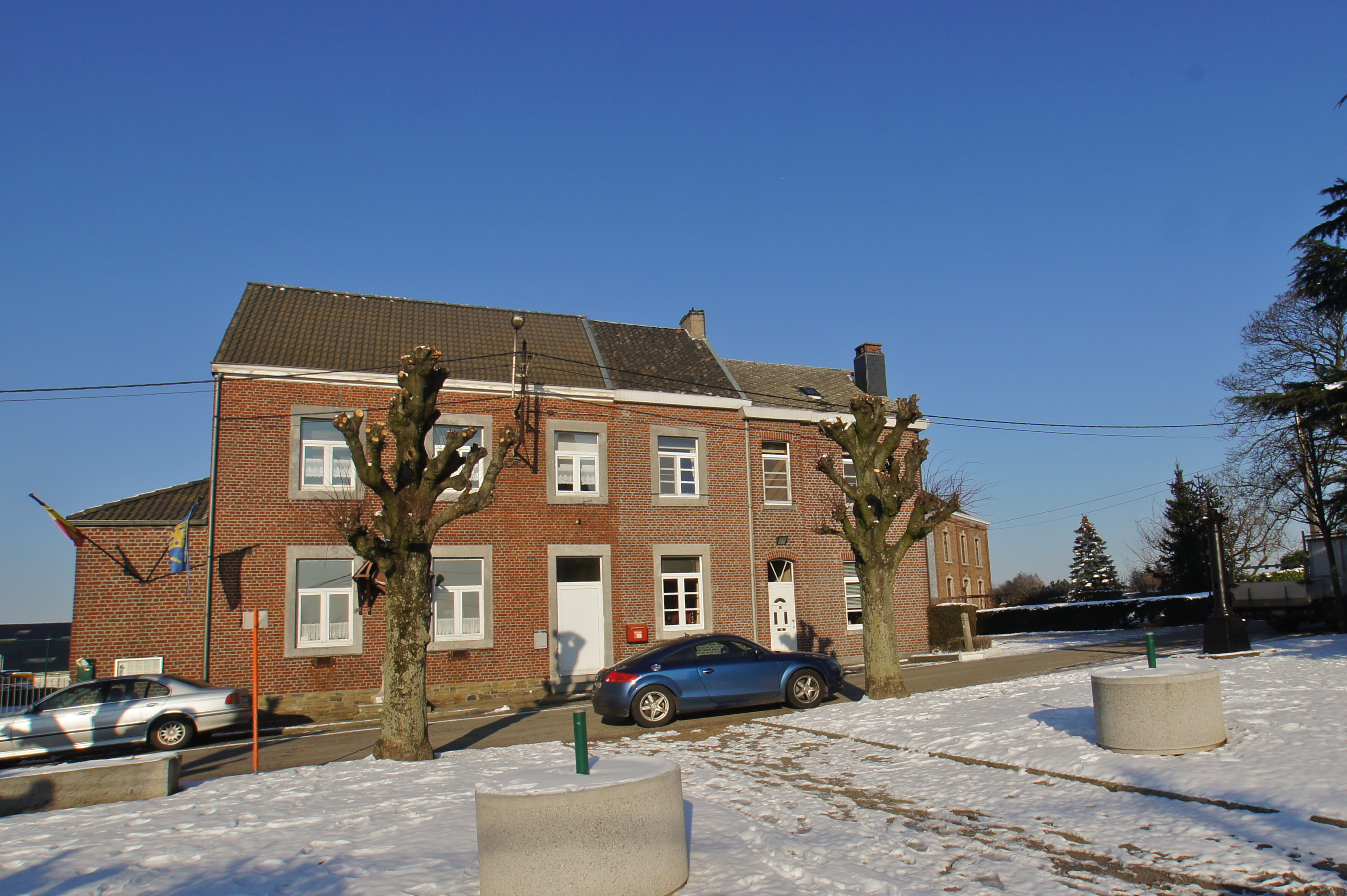 Dalhem (Saint-André), Belgium: Former Town hall